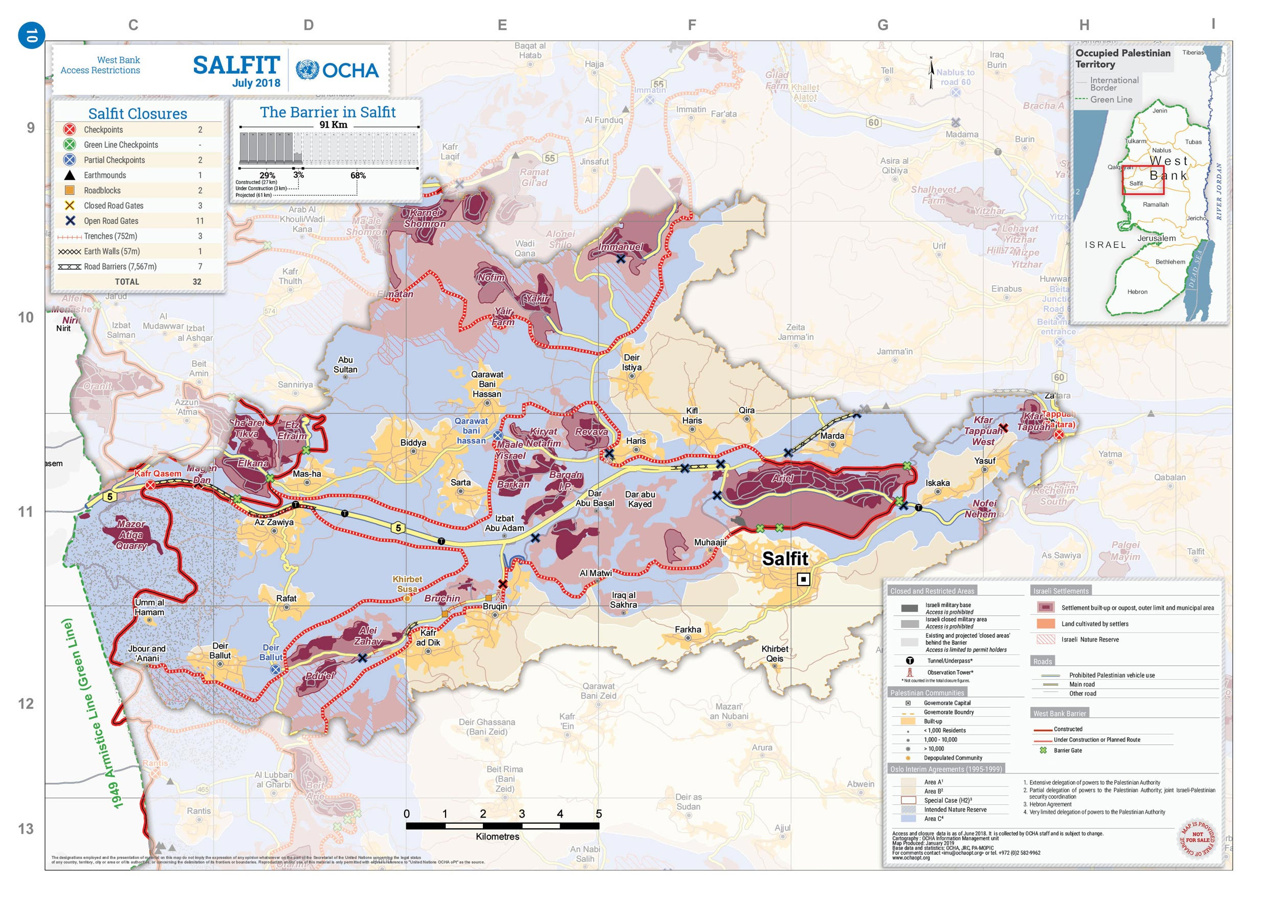 2018 OCHA OpT map